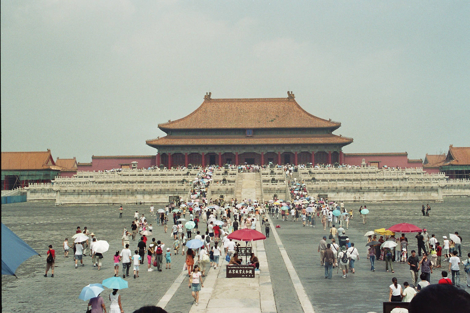 Beijing, Forbidden City, Hall of Supreme Harmony